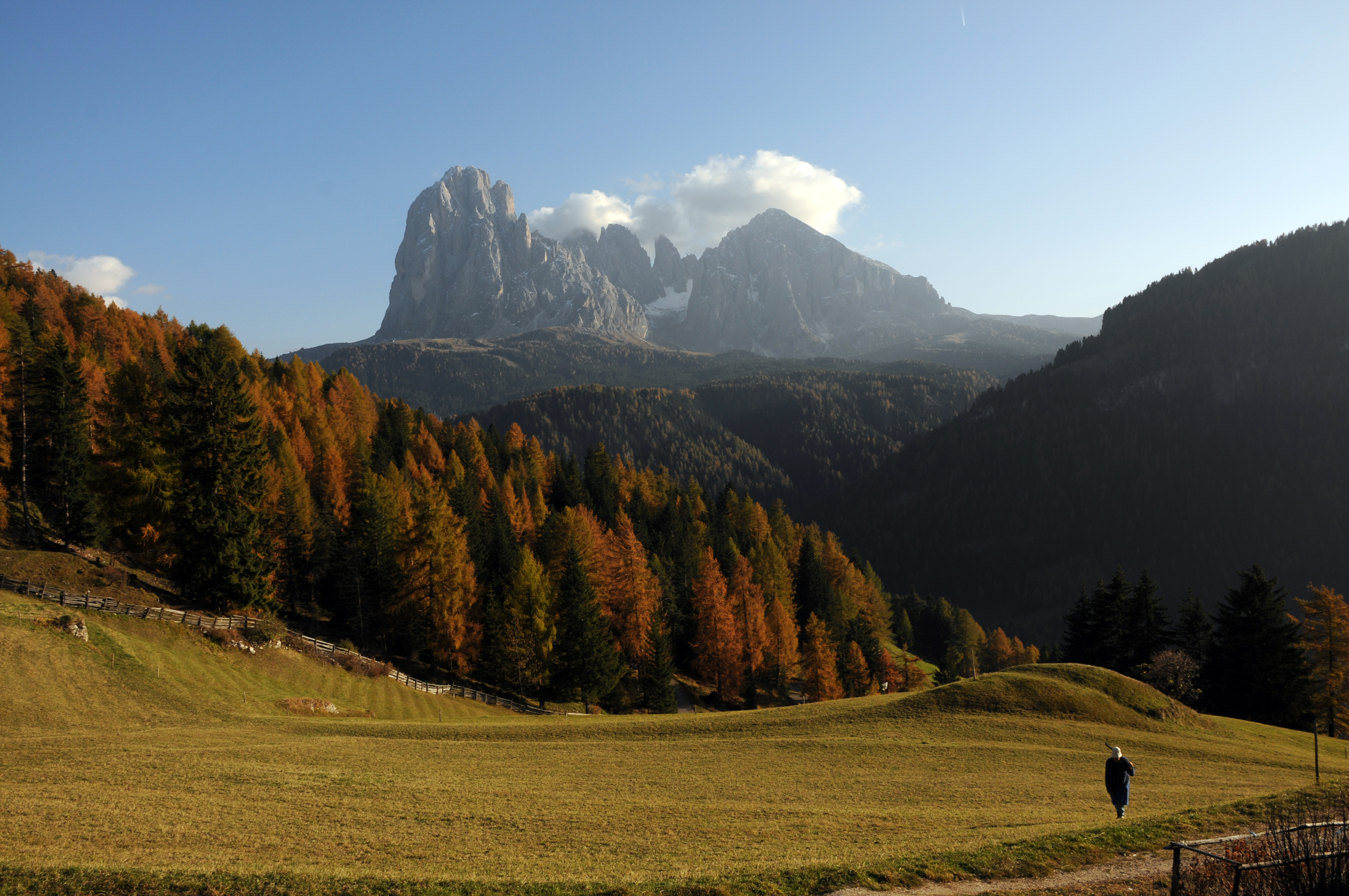 The Langkofel Dolomites from Sacun, South Tyrol